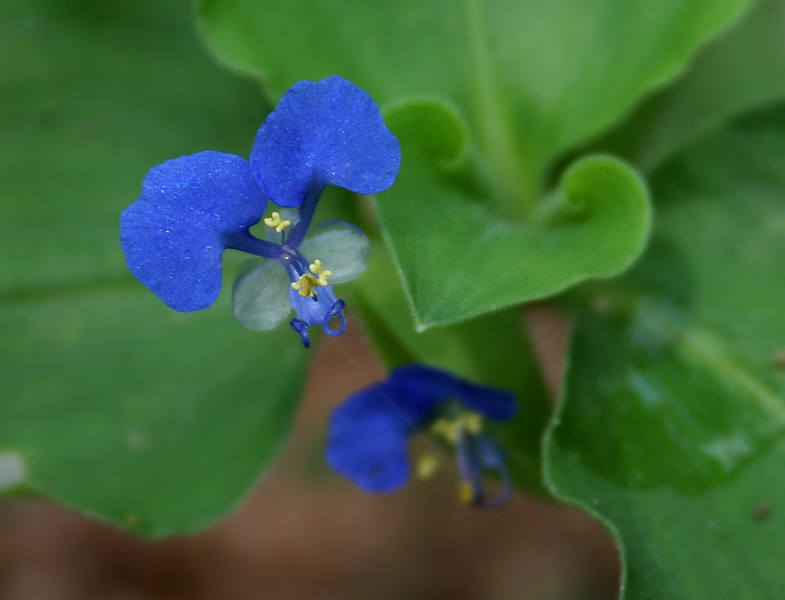 Commelina benghalensis - benghal dayflower, tropical spiderwort, wandering jew, Whiskered Commelina • Hindi: काना Kana, Kankawa • Manipuri: ৱাঙদেন খোইবী Wangden khoibi • Marathi: केना Kena - in Hyderabad, India.